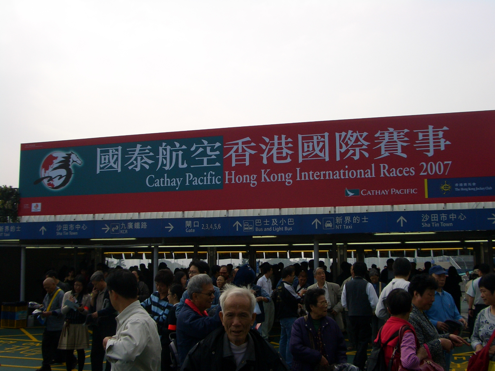 Cathay Pacific Hong Kong International Races 2007